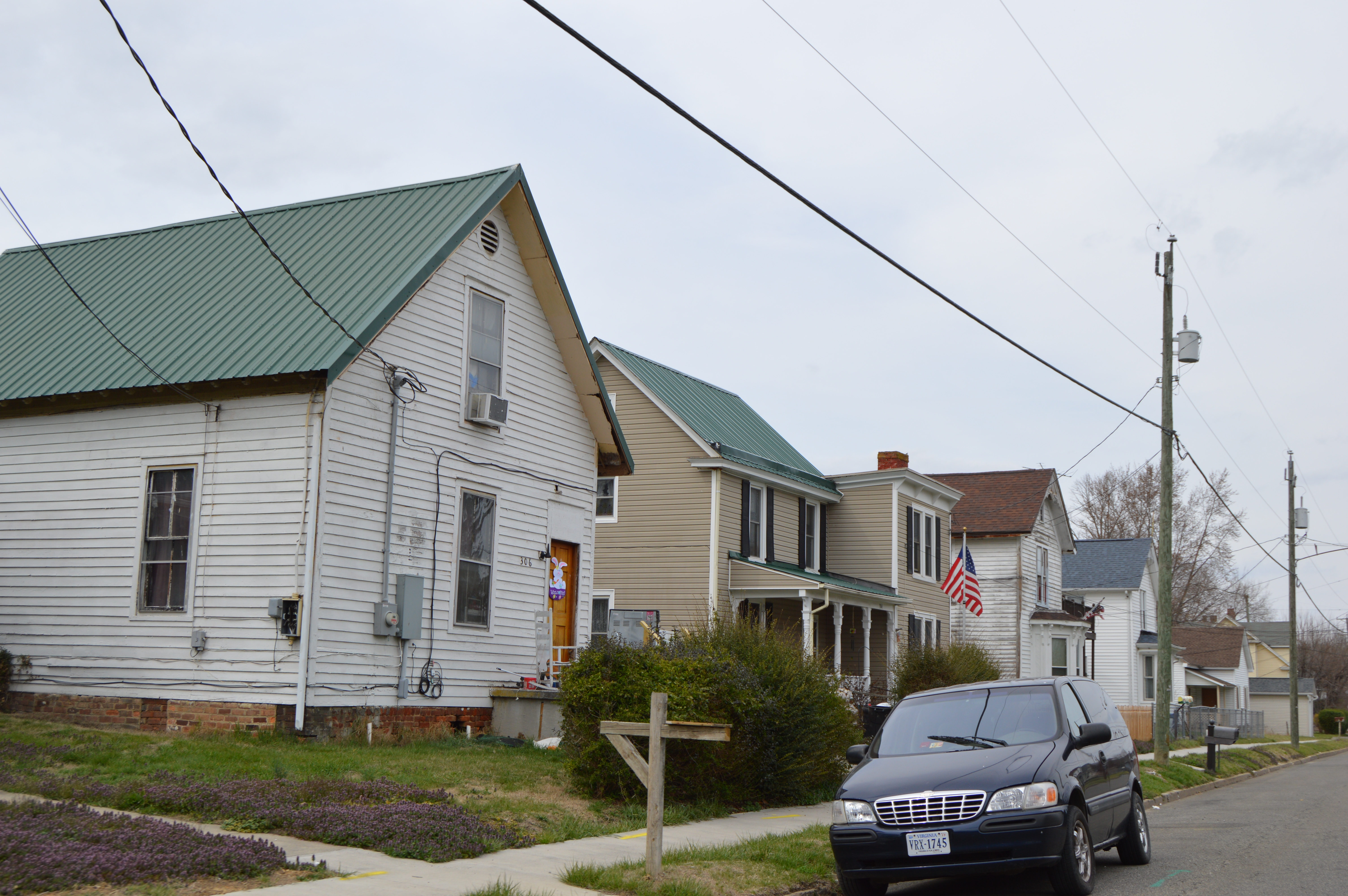 Houses on the western side of Valley Street, just north of Chestnut Alley, in Pulaski, Virginia, United States. This block is part of the Pulaski South Historic Residential and Industrial District, a historic district that is listed on the National Register of Historic Places.